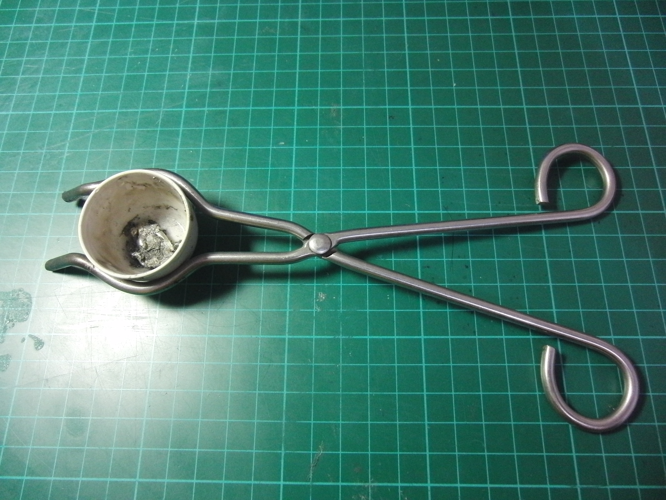 Crucible tong